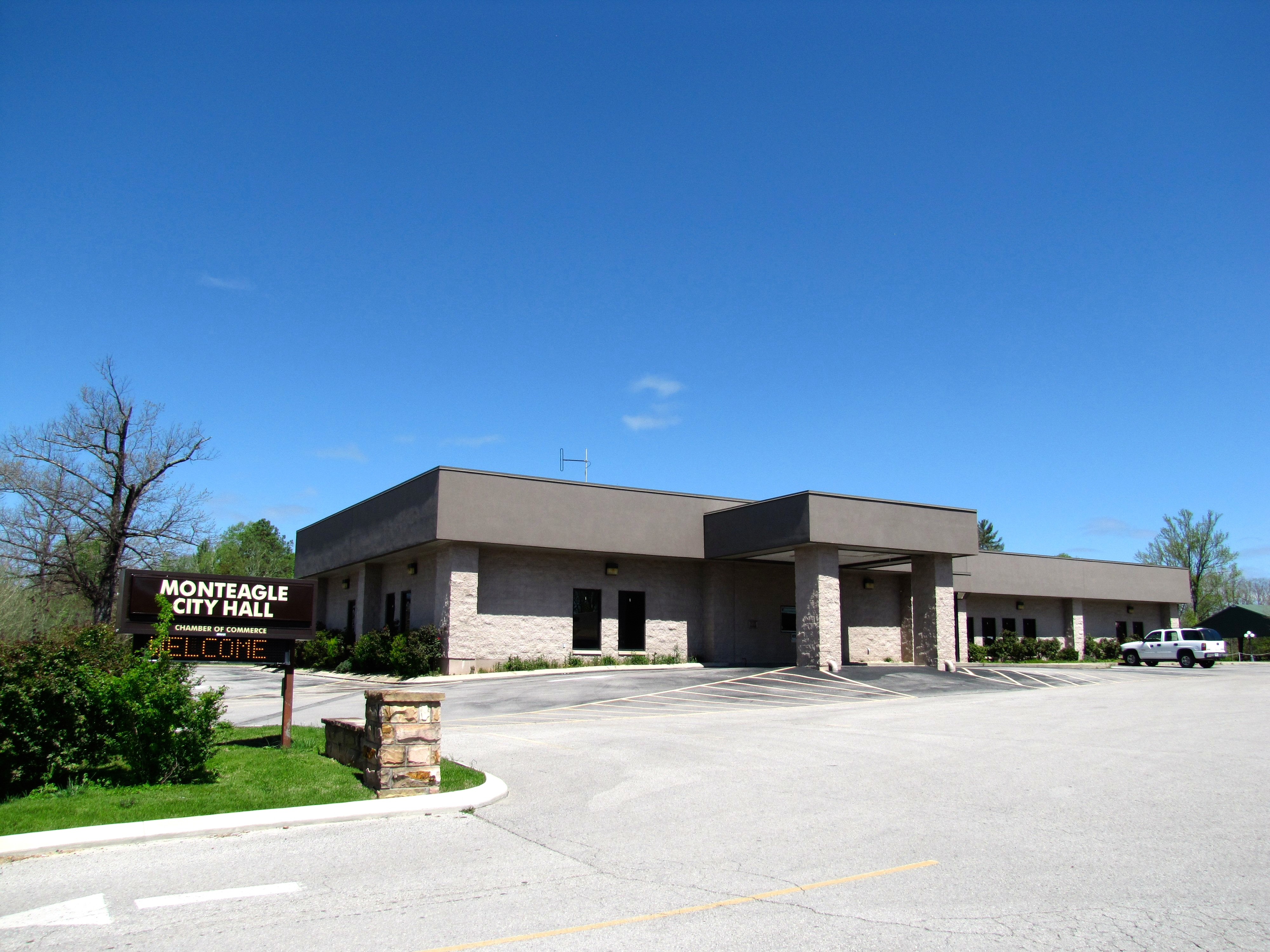 City Hall in Monteagle, Tennessee, United States.